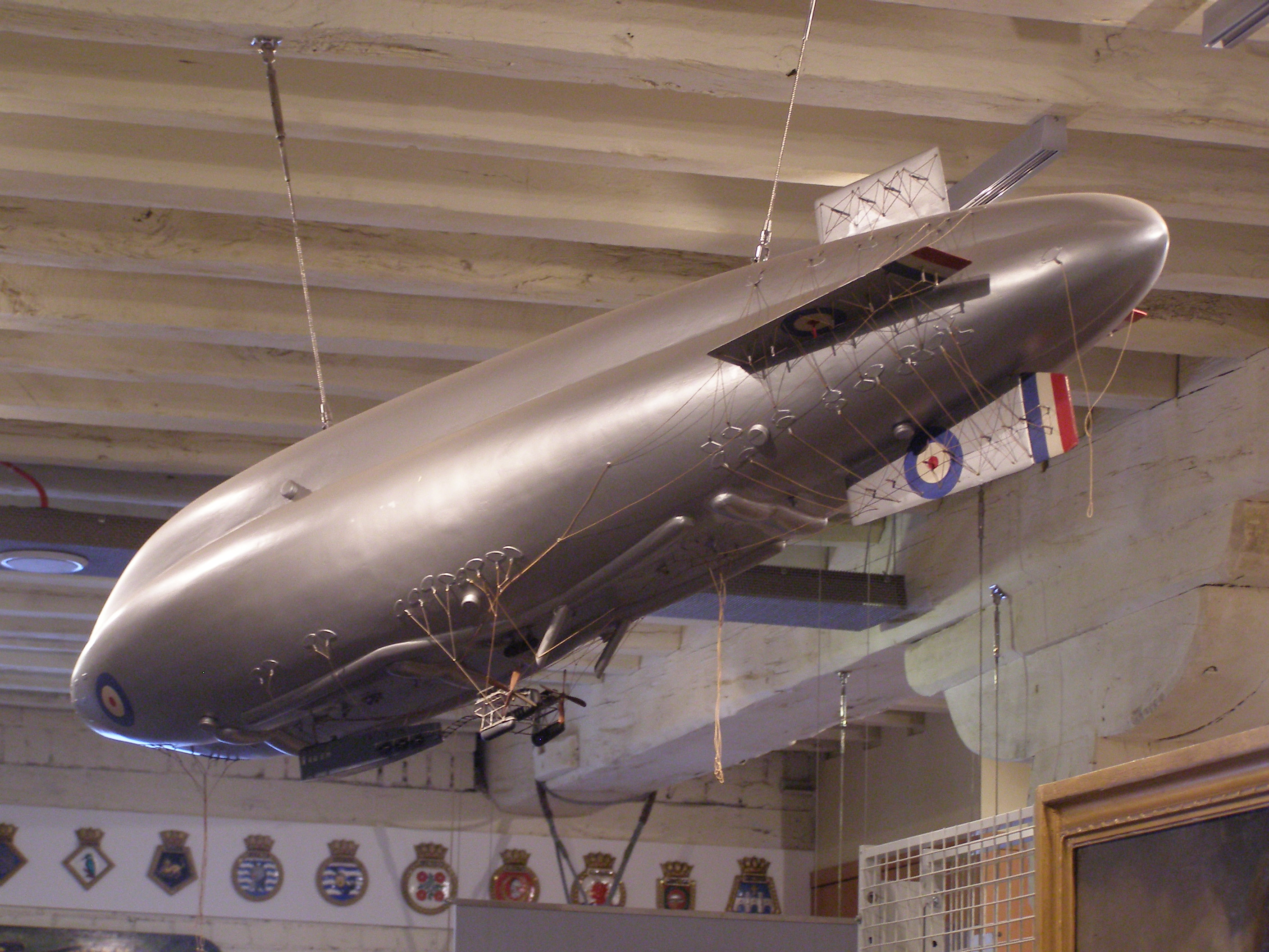 Model of a North Sea Class Non Rigid Airship on display at the Chatham Historic Dockyard, Kent, England